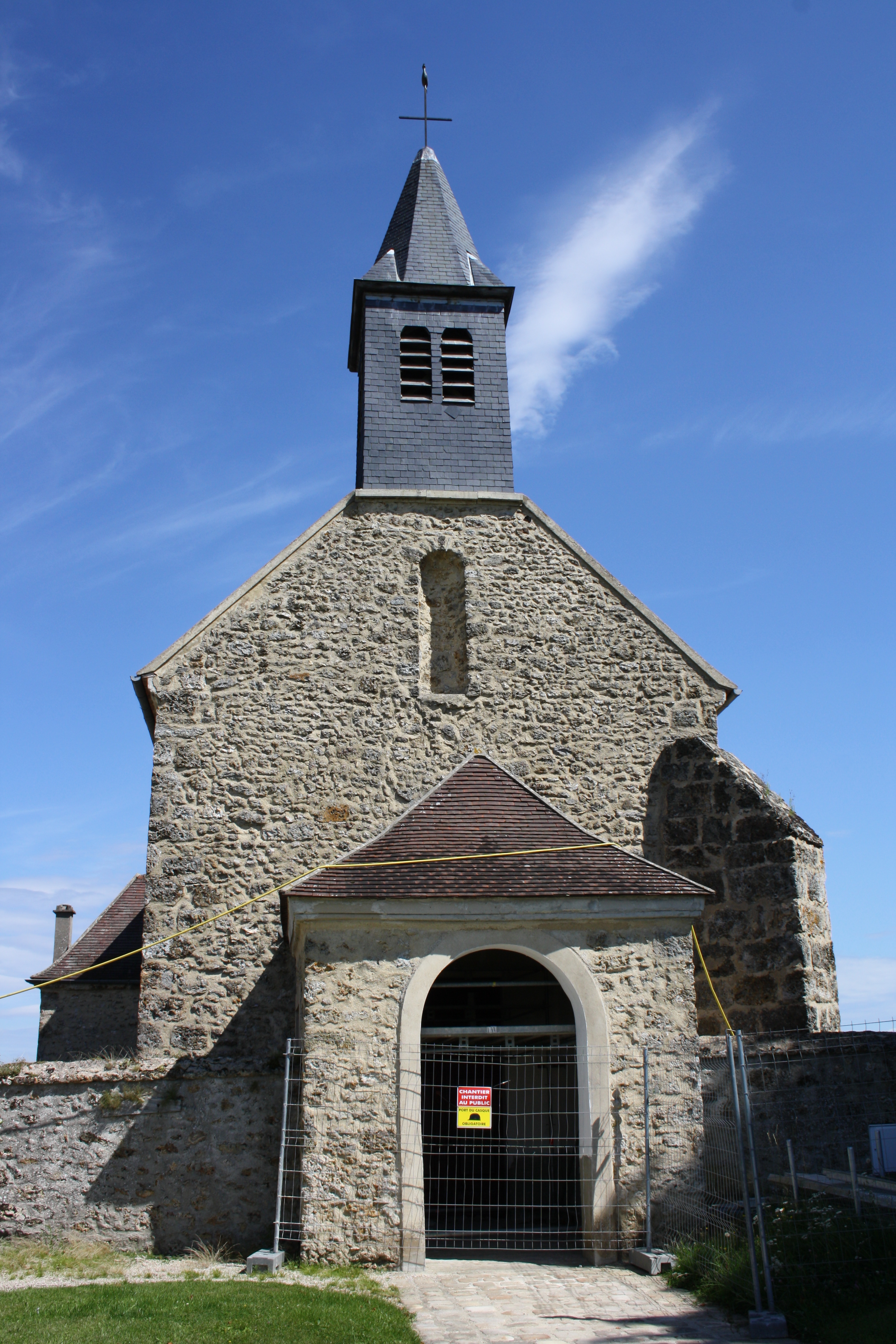 Saint-Jean-l'Évangéliste church at Boullay-les-Troux in France. - Google Maps - Google Earth